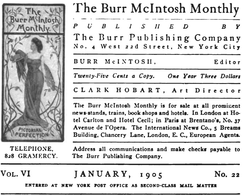 Info from a copy of Burr McIntosh Monthly magazine, 1905